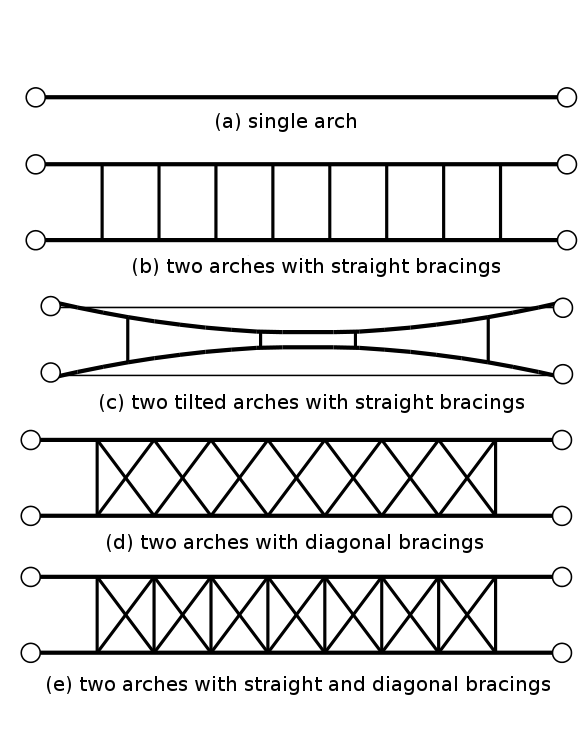 Different types of arch bracings for tied-arch bridges